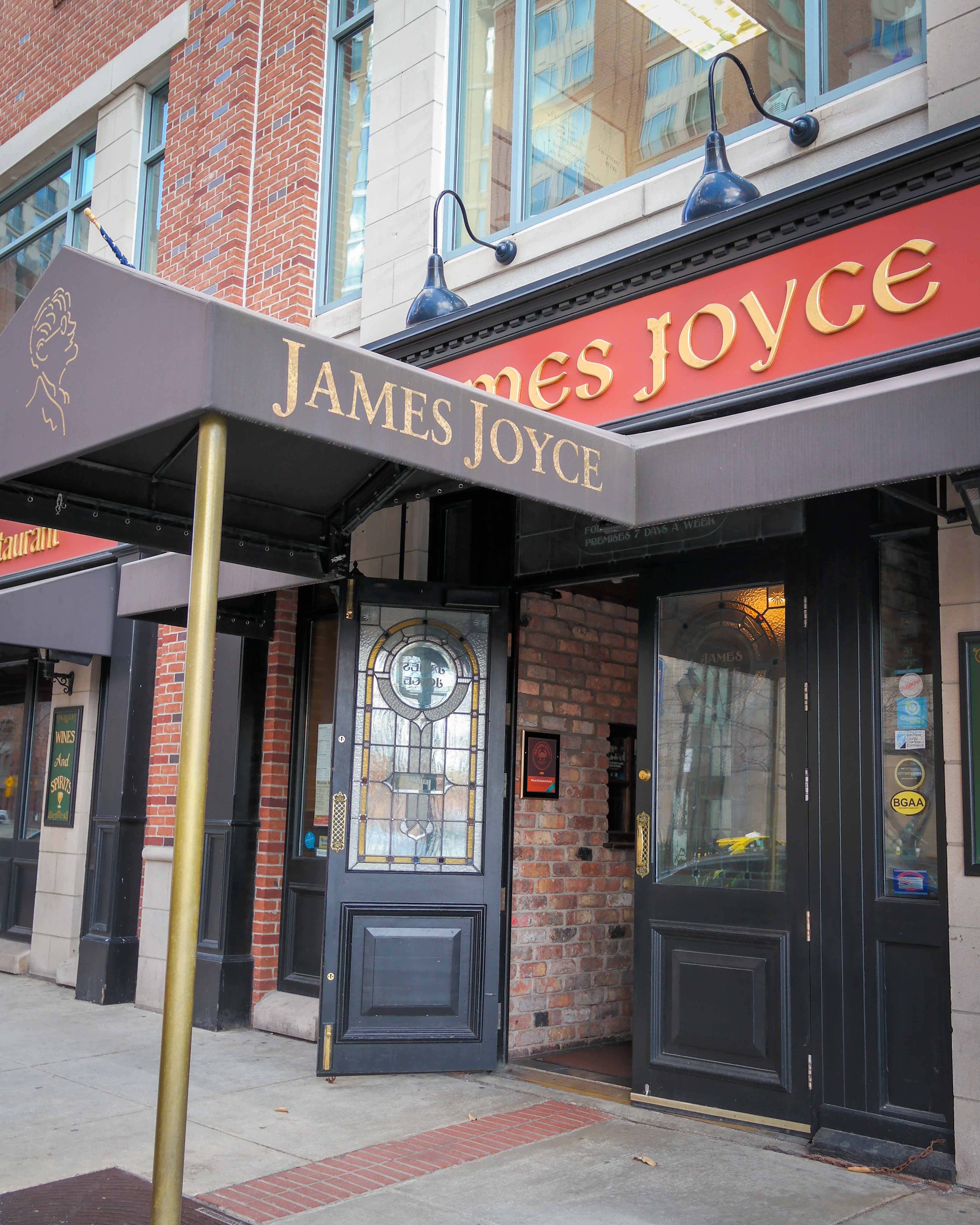 Outside the James Joyce Pub in Baltimore